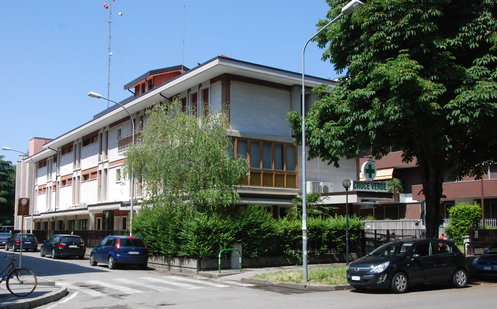 Headquarter of the "Croce Verde" ("Green Cross") of Padua